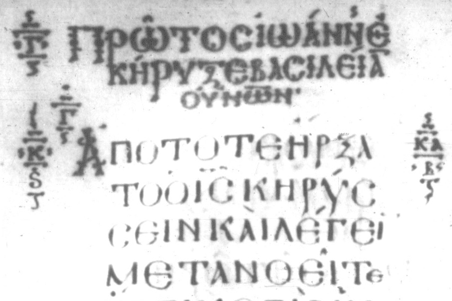 Codex Nanianus Mt 5,17